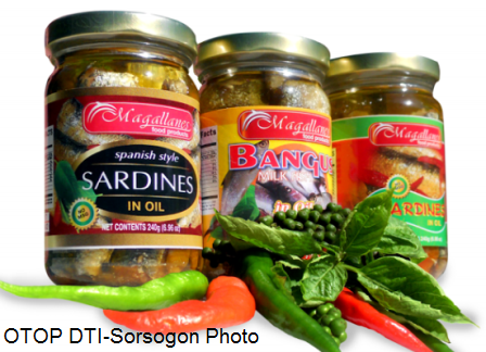 Magallanes Food Product